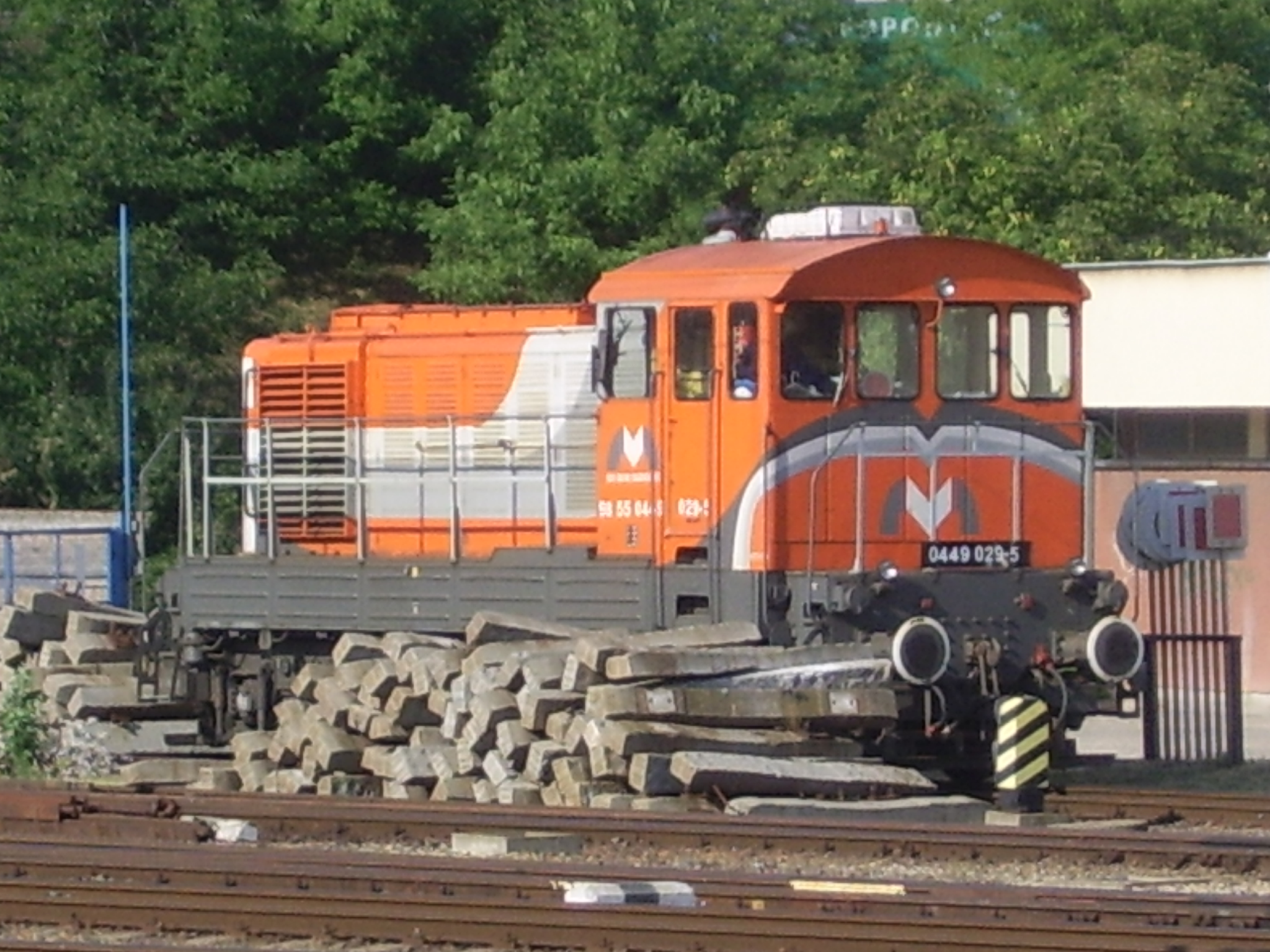 Class M44 diesel engine of the MMV in Kelenföld, Budapest